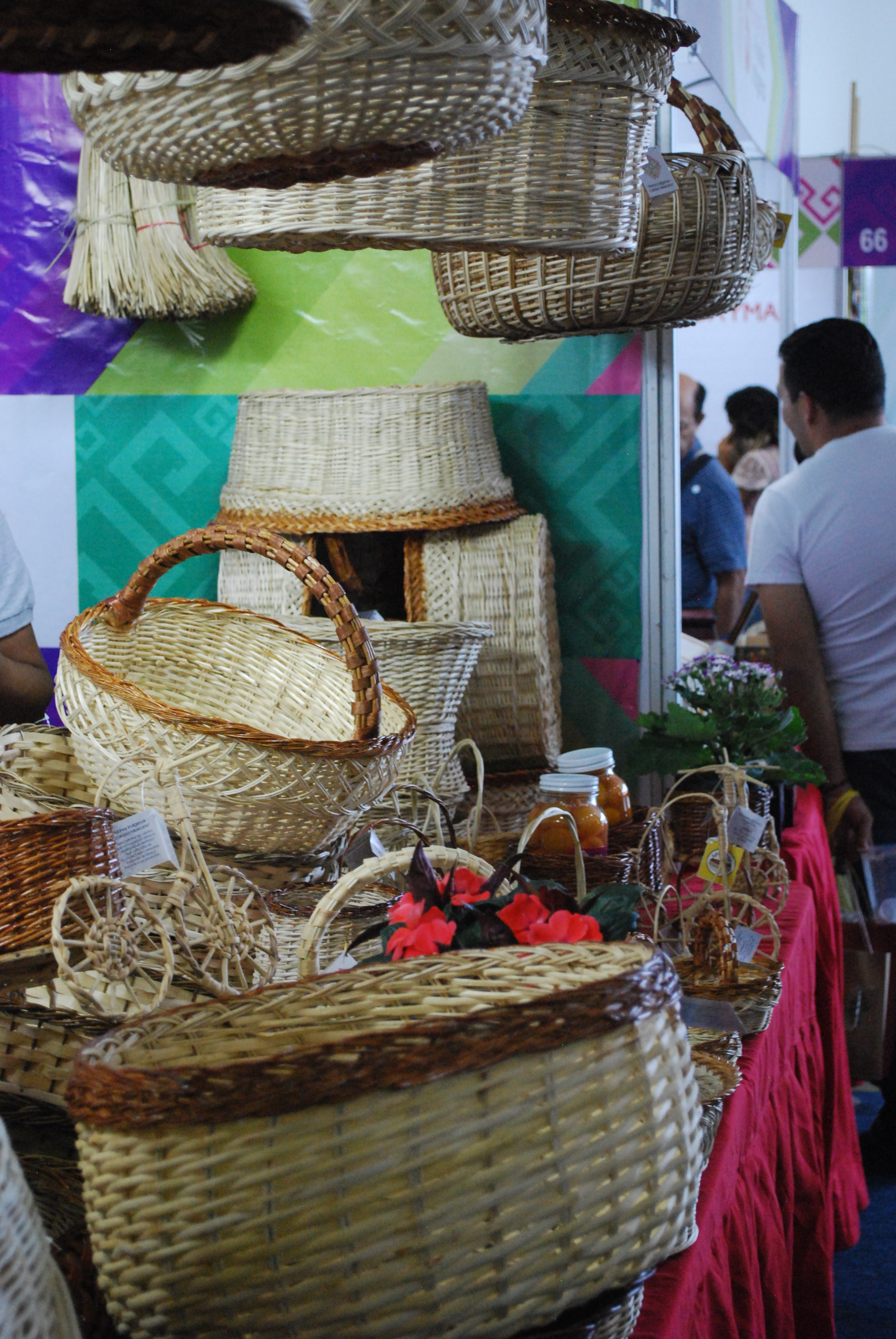 Baskets made from willow of Tetela del Volcan, Morelos at the May 2017 Expo de los Pueblos Indígenas in Mexico City